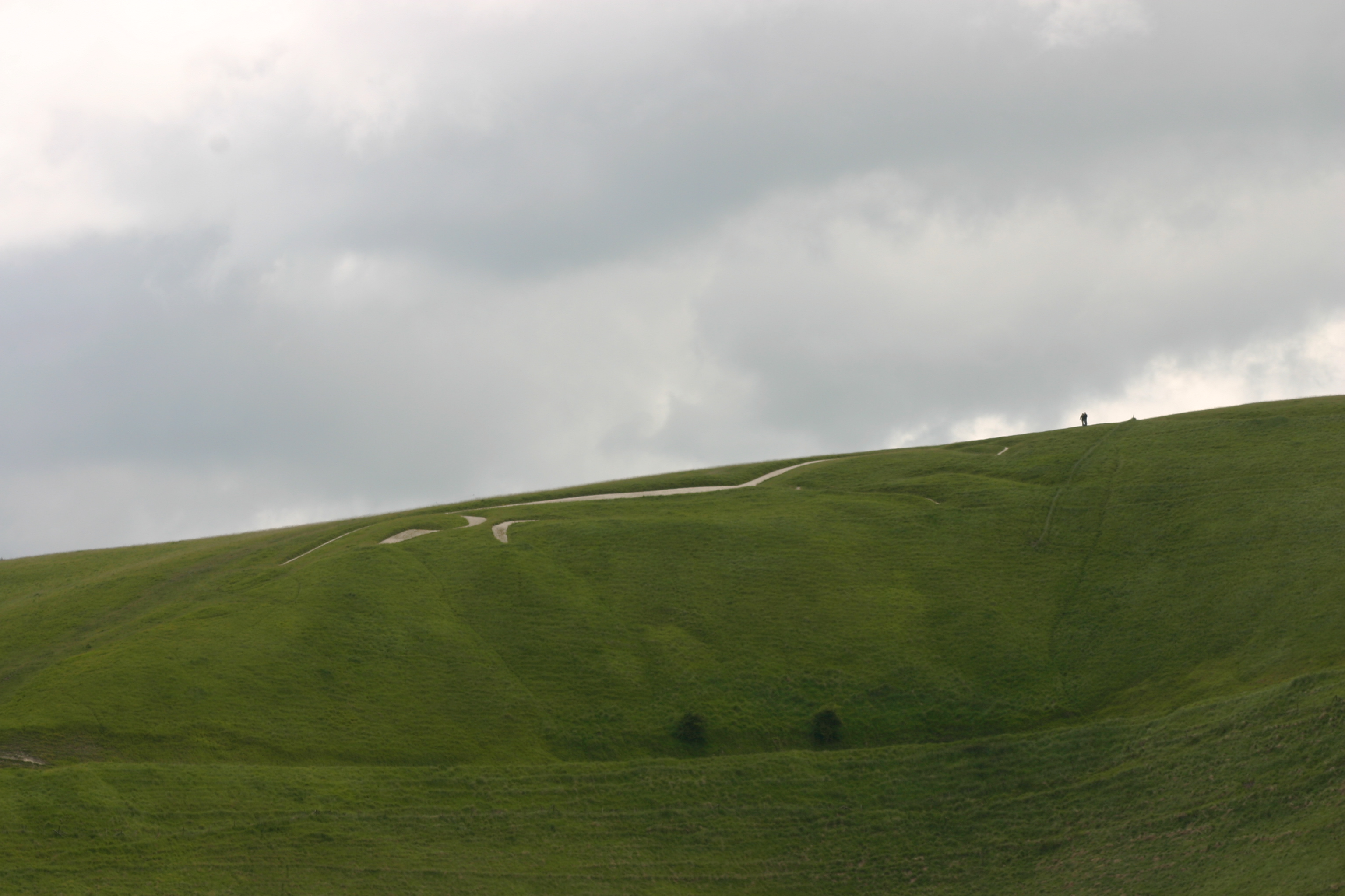 view from the south road